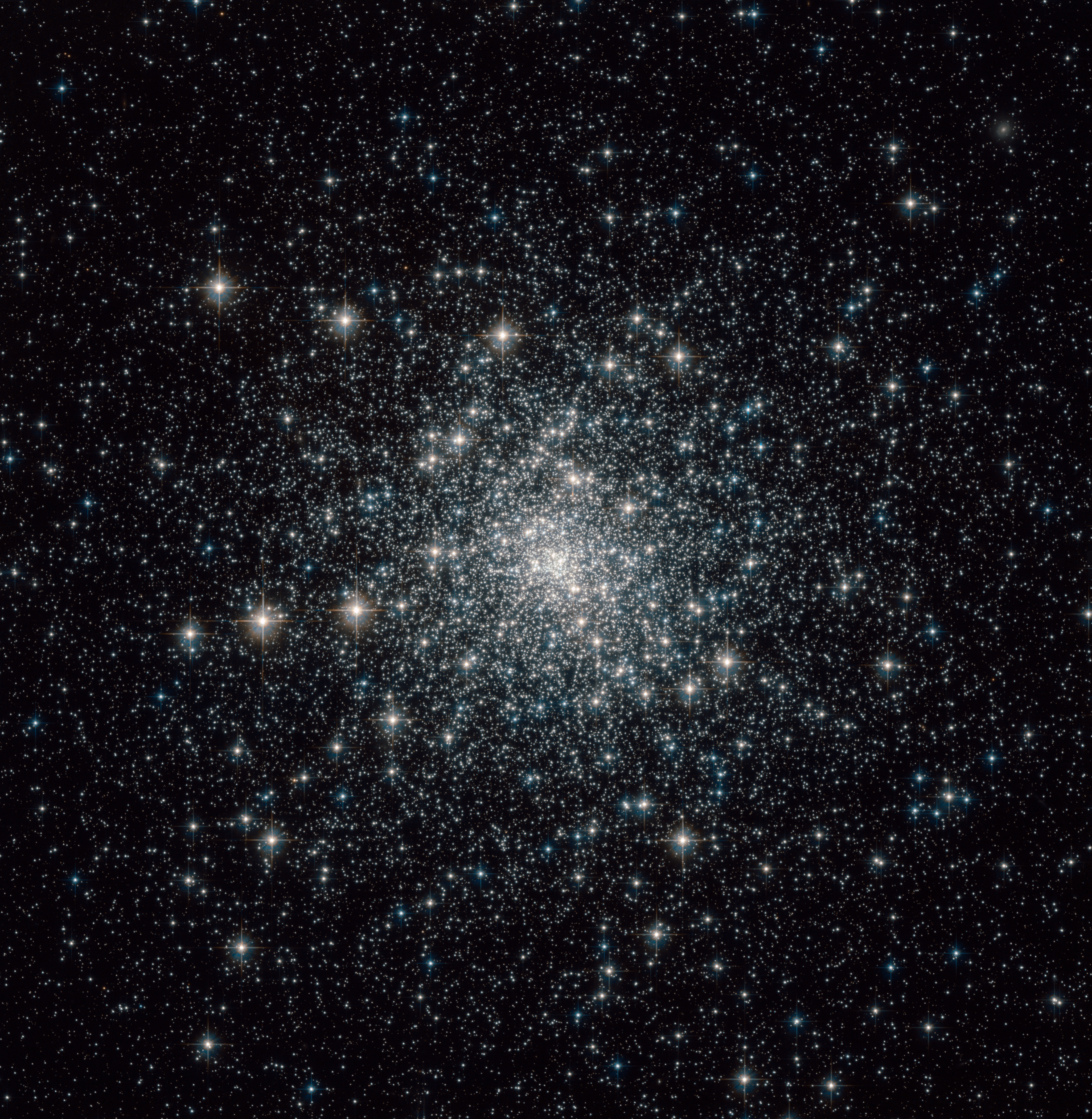 This brilliant image of Messier 30 (M 30) was taken by Hubble's Advanced Camera for Surveys (ACS). Messier 30 formed 13 billion years ago and was discovered in 1764 by Charles Messier. Located about 28000 light-years away from Earth, this globular cluster — a dense swarm of several hundred thousand stars — is about 90 light-years across. Although globular clusters such as this one are mainly populated by old stars, the crowded field of stars leads to some old stars apparently reclaiming their youth in the form of blue stragglers. Researchers using data from Hubble's now-retired Wide Field Planetary Camera 2 (WFPC2) have identified two types of blue stragglers in Messier 30: those that form in near head-on collisions with one another and those that are in twin (or binary) systems where the less massive star siphons "life-giving" hydrogen from its more massive companion.